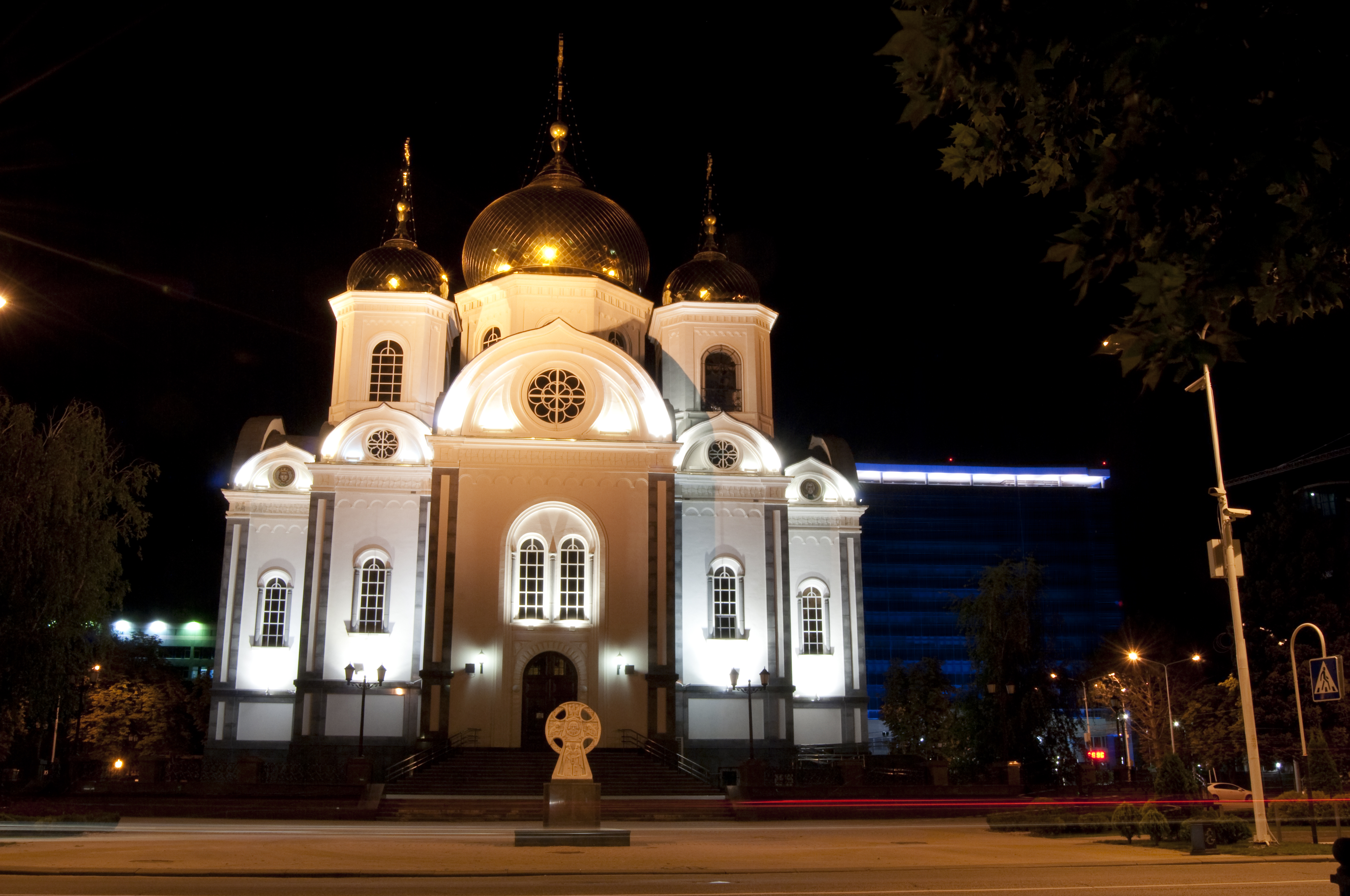 Church